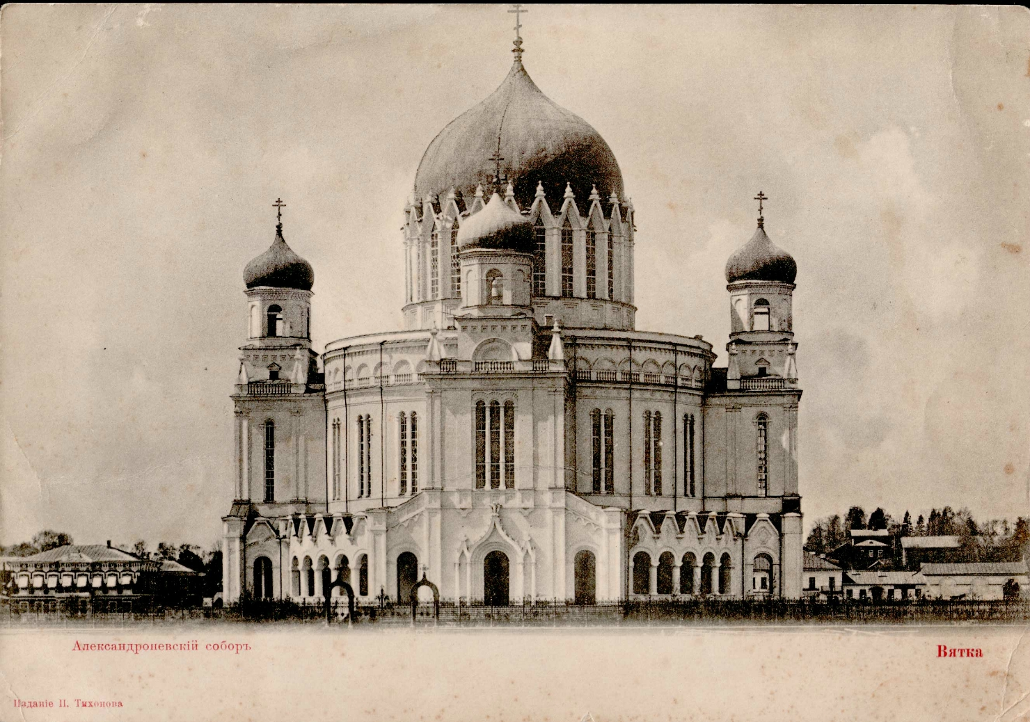 St. Alexander Nevsky Cathedral in Vyatka (today Kirov)